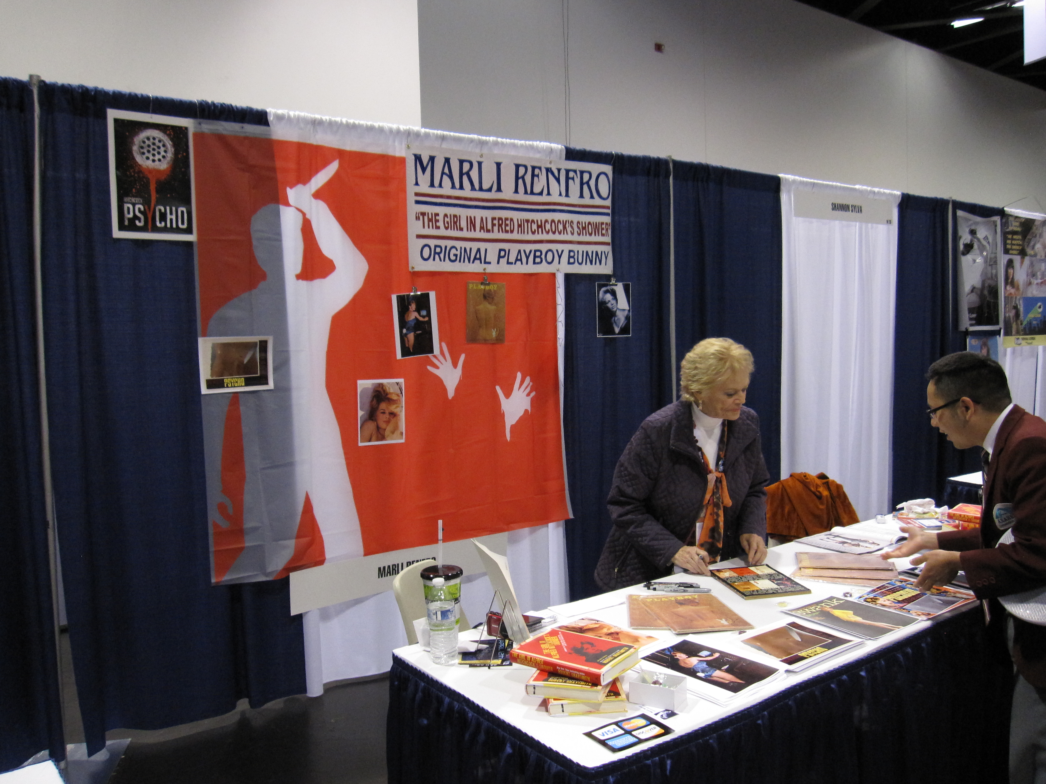 WonderCon, a comic/anime convention held every March in San Francisco, had to relocate to Anaheim for 2012, due to San Francisco's Moscone Center being closed for renovations. Anaheim Convention Center was very poorly prepared for the logistics, I must say, but all the great cosplay more than made up for the shortcomings. Marli Renfro, the original Playboy Bunny and also the actress in the famous shower scene from the Alfred Hitchcock movie "Psycho." She aged quite gracefully.